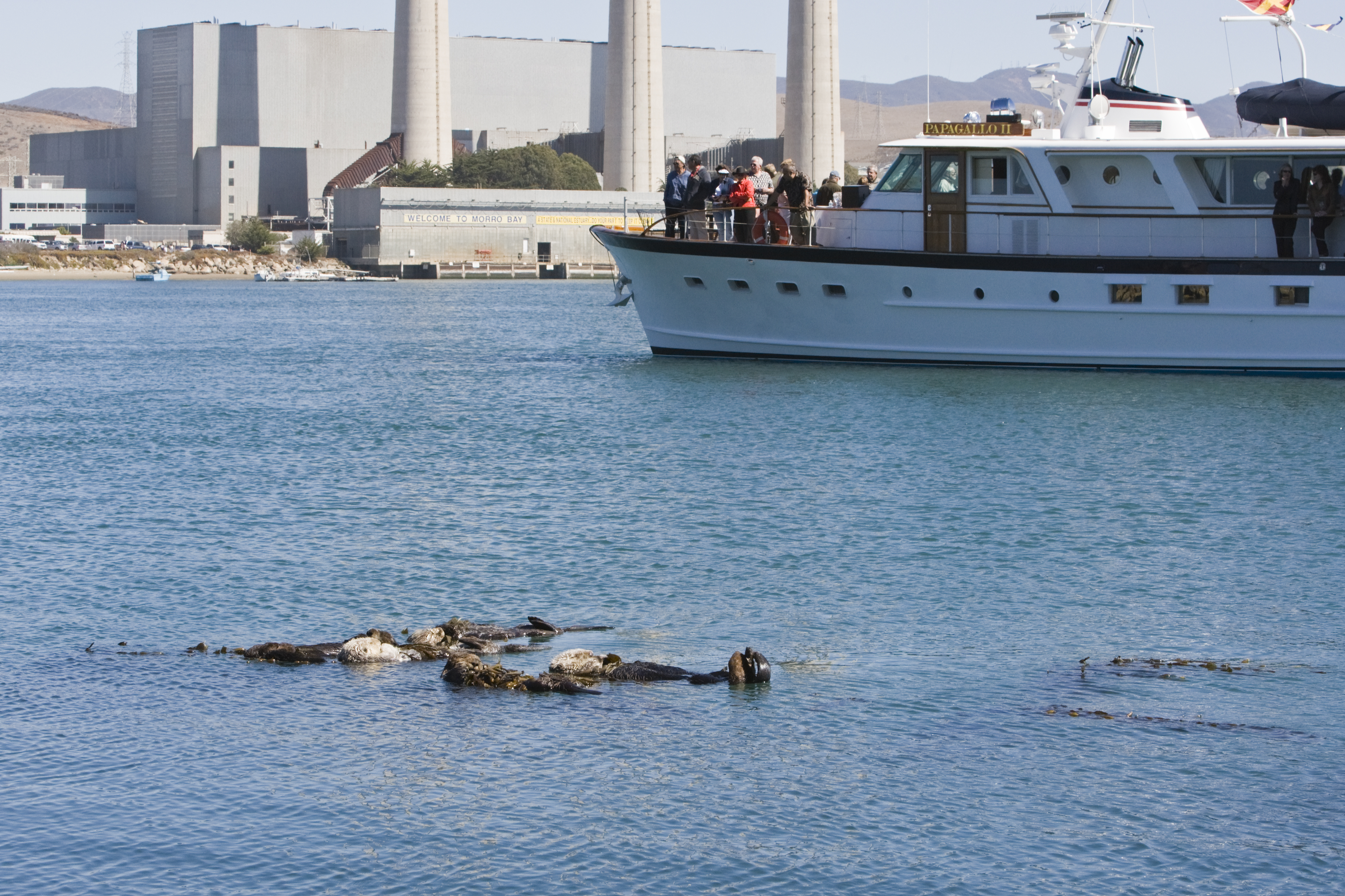 Sea Otters (5) being observer by visitors from a boat in the channel near Morro Rock, Morro Bay, CA 07oct2007 - Photo by Mike Baird - Canon 1D Mark III with 70-200 f/2.8 lens handheld